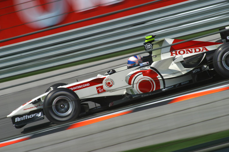 Anthony Davidson driving for Honda at the 2006 United States Grand Prix.